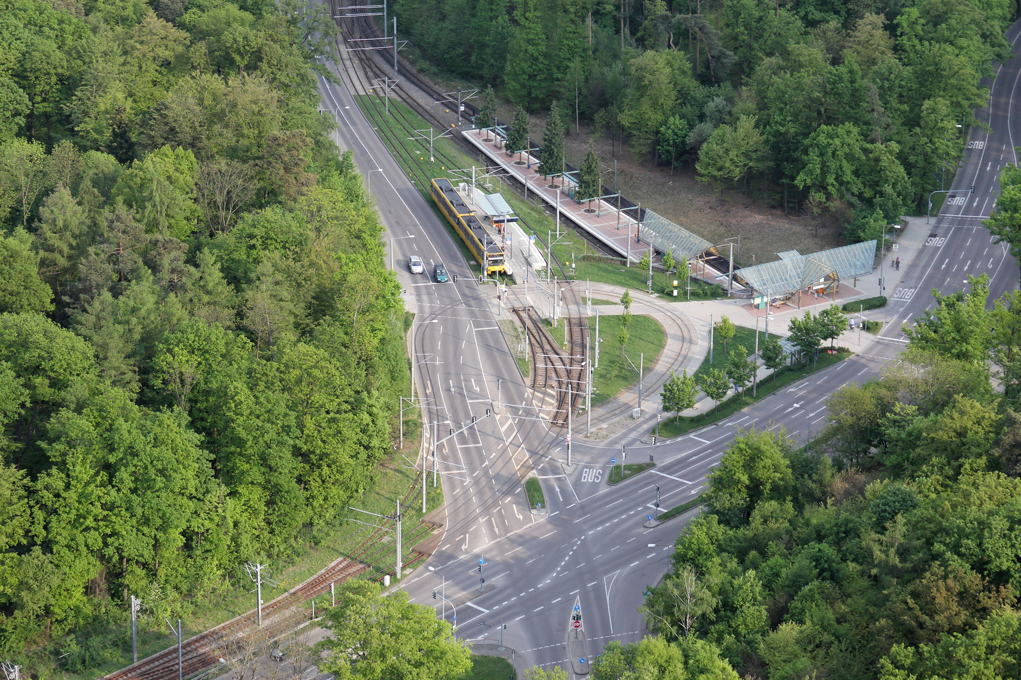 Aerial view of the SSB subway stop "Ruhbank (Fernsehturm)" in Stuttgart with a DT-8 at the station, as seen from the panoramic deck of the Stuttgart Television Tower.